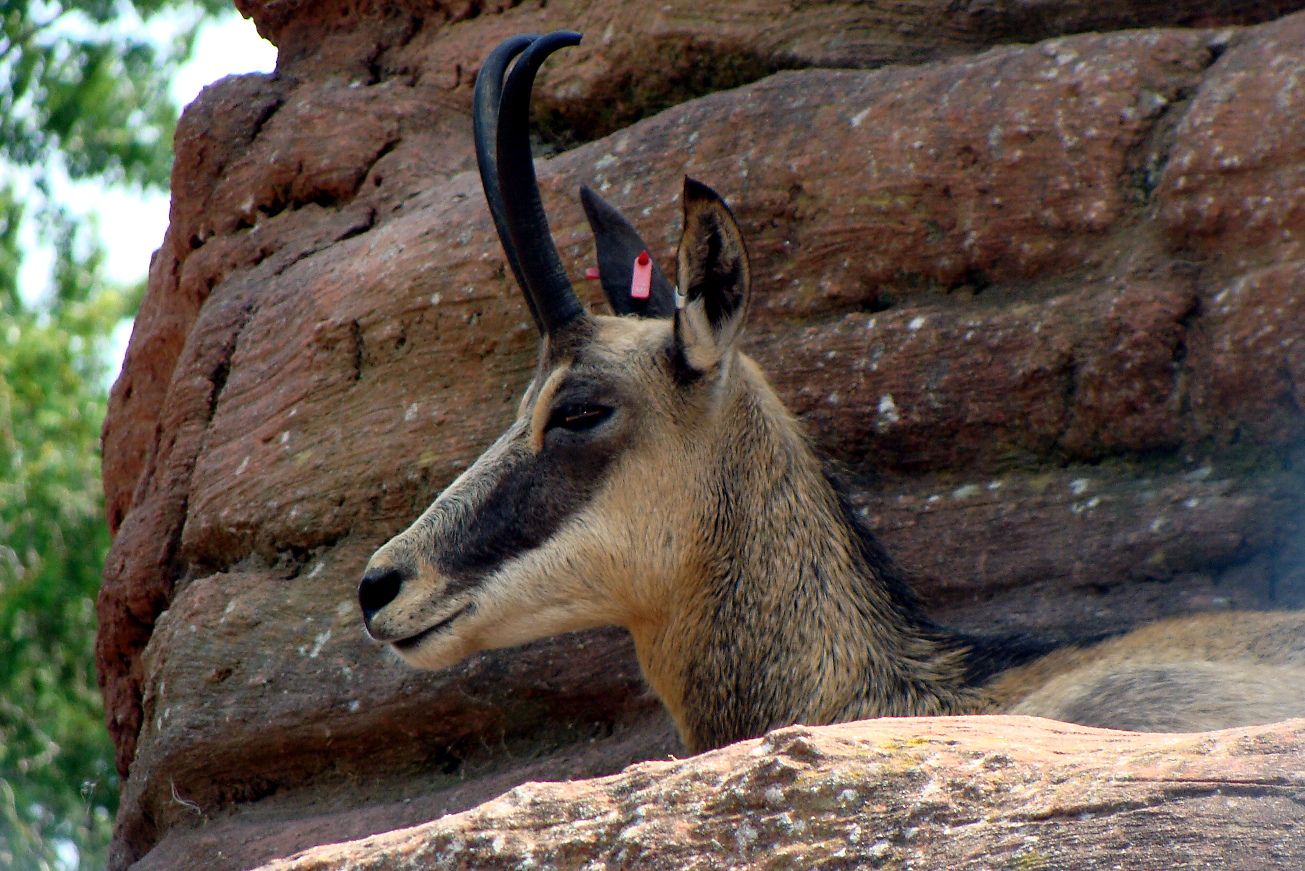 The chamois, Rupicapra rupicapra, is a goat-antelope species native to mountains in Europe, including the Carpathian Mountains of Romania, the European Alps, the Tatra Mountains, the Balkans, parts of Turkey, and the Caucasus.